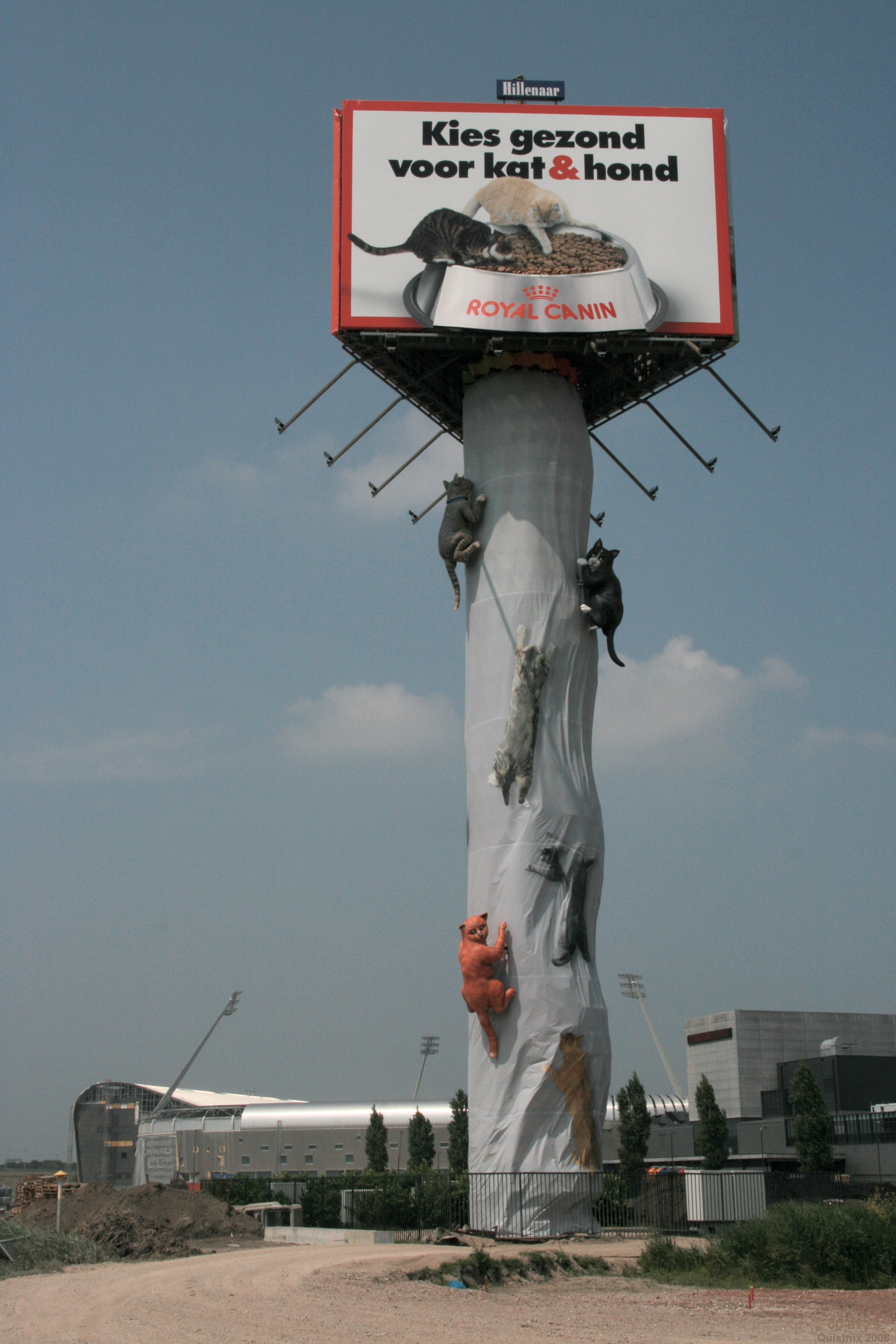 Advertisement at the Prins Clausplein, in the form of a giant cat scratch pole with climbing cats. The ADO stadium under construction is in the background.